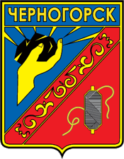 Chernogorsk (Khakassia), coat of arms (1987)